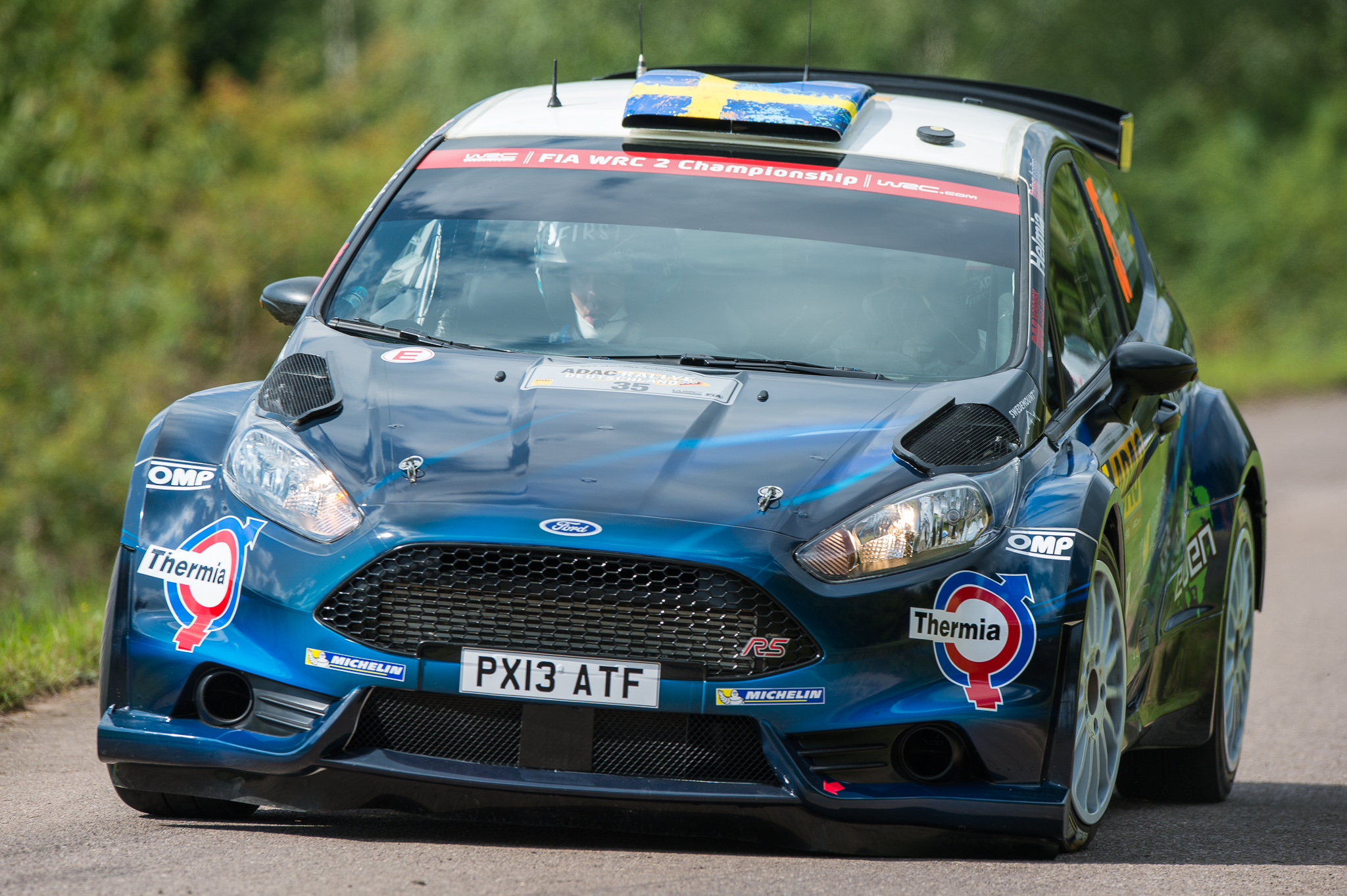 ADAC Rallye Deutschland 2014,Emil Axelsson,FIA,FIA World Rally Championship,Ford Fiesta R5,Motorsport,Pontus Tidemand,Rally,Rallye,Shakedown,WRC 2